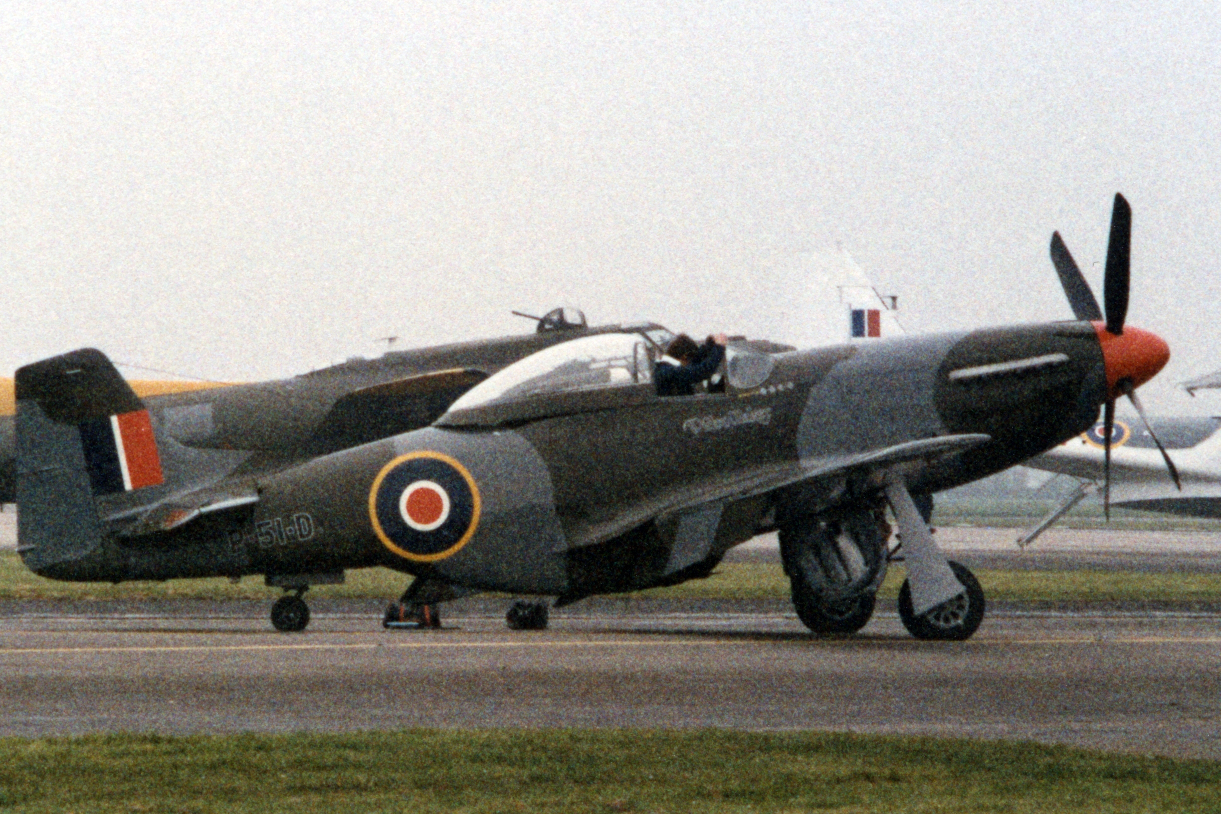 North American P51 Mustang. Photo taken at Rotterdam Airport Airshow, May 1985.